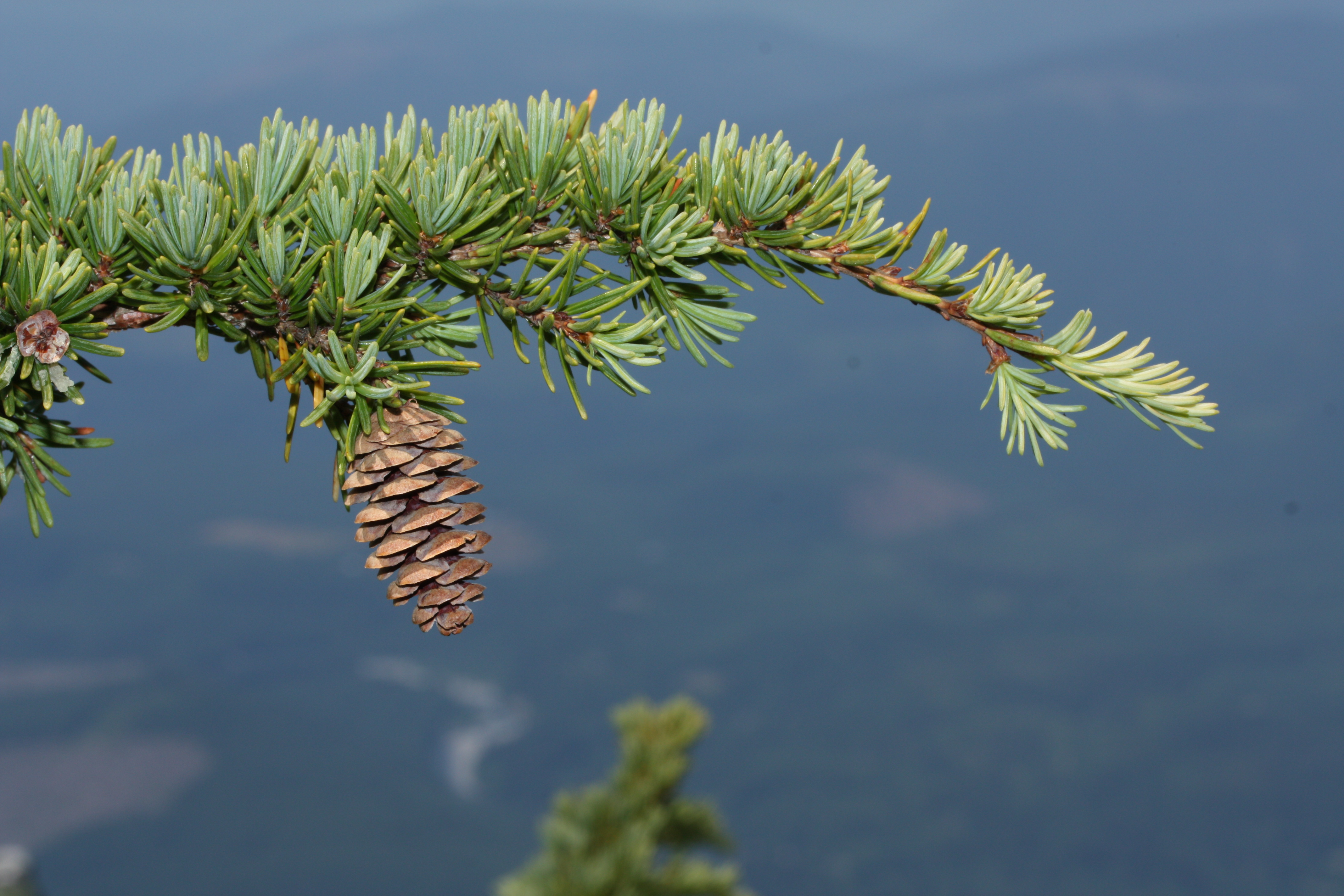 Mountain Hemlock, Black Hemlock